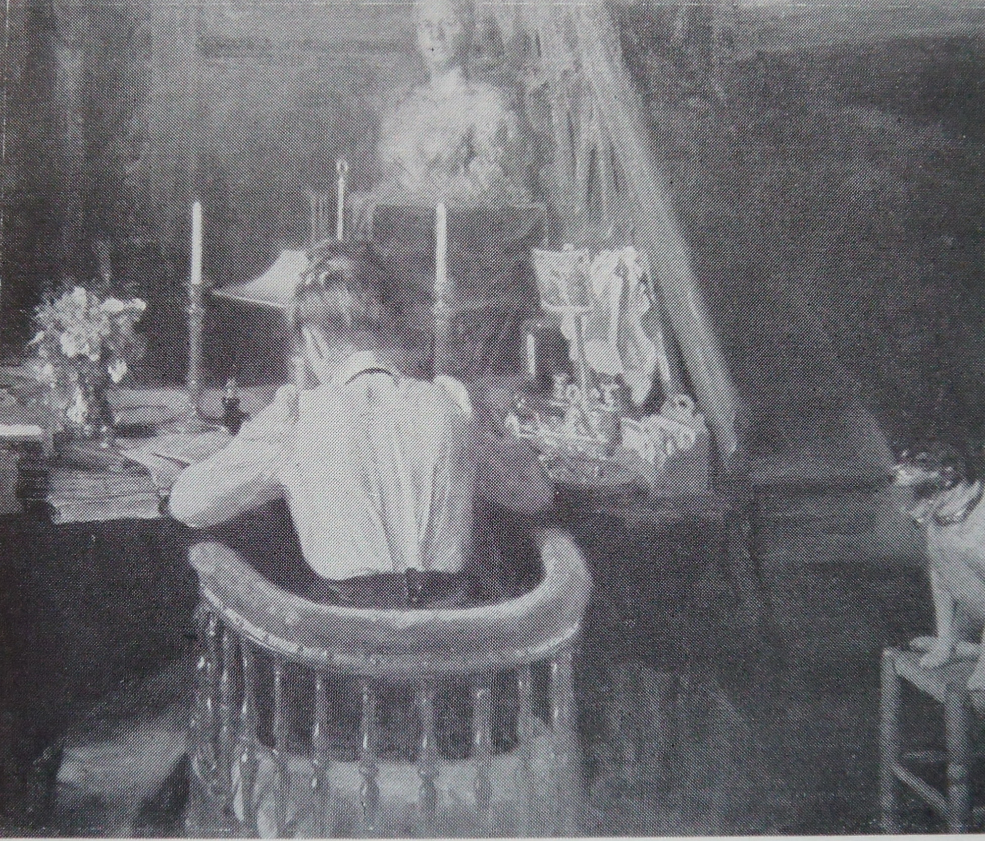 Portrait of Nordman NB at her desk in the back in "Penates". Canvas, oil. Bashkir Republican Art Museum. MV Nesterov, Ufa.